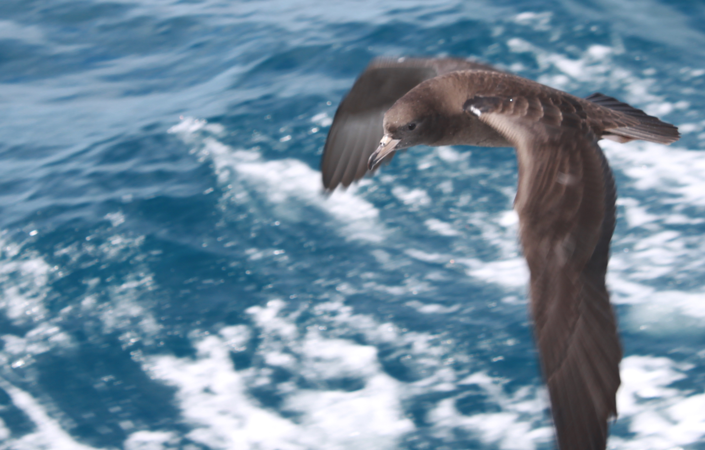 Flesh-footed Shearwater flying in New Zealand.